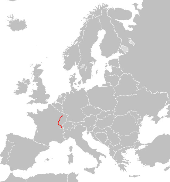 The European route 21